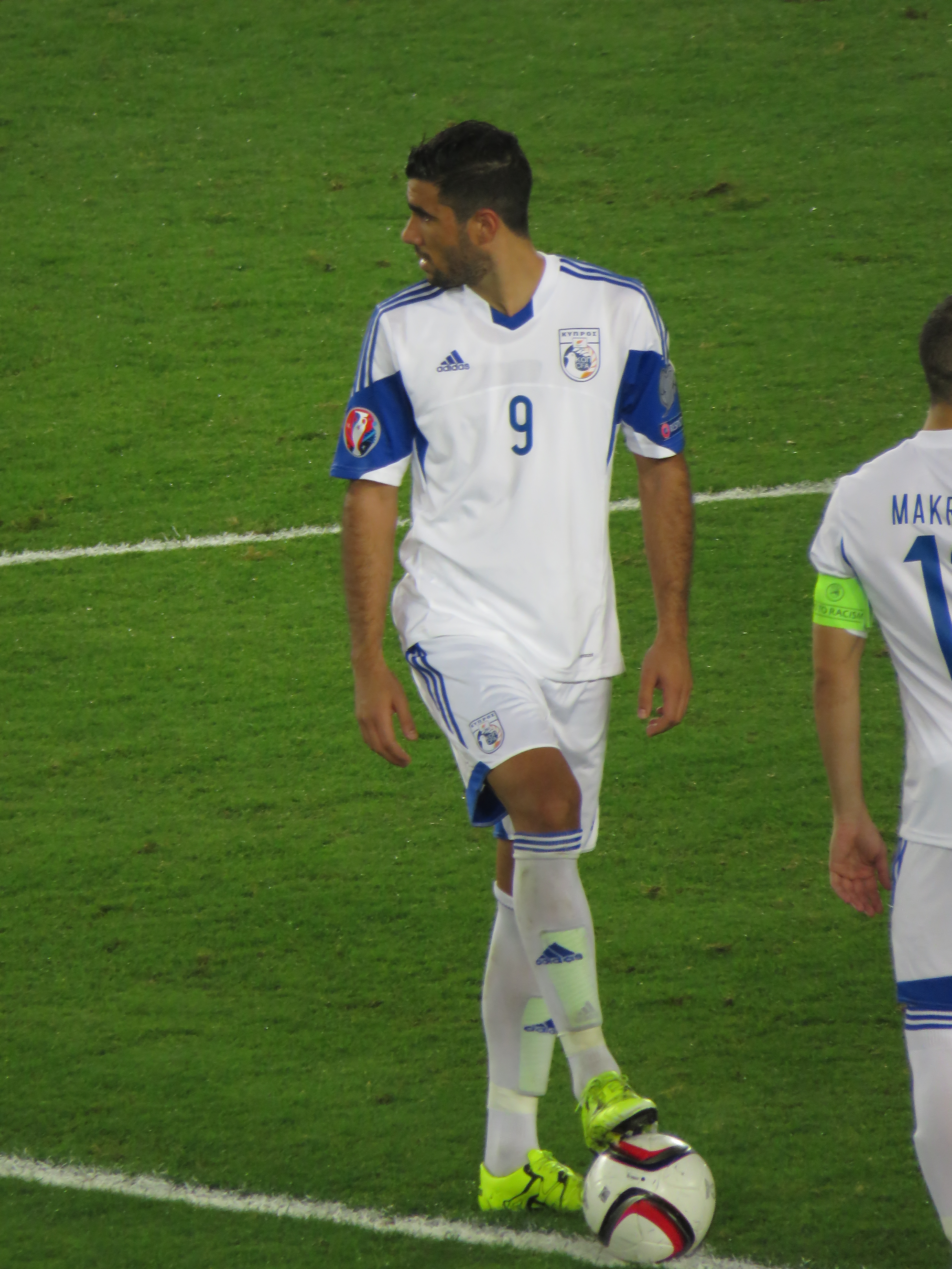 Israel vs. Cyprus - October 10, 2015